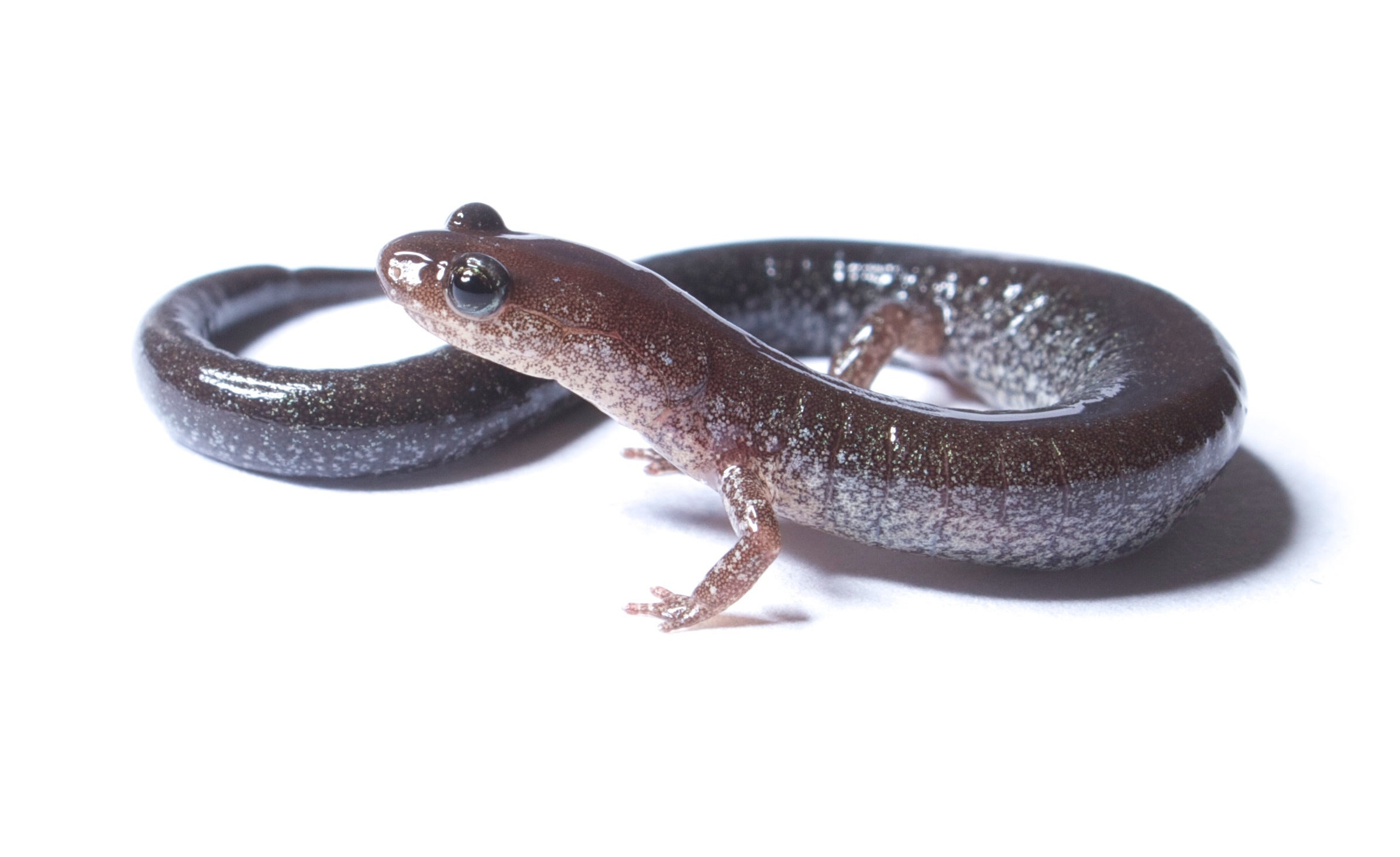 Plethodon cinereus at Point O'woods, Virginia, USA